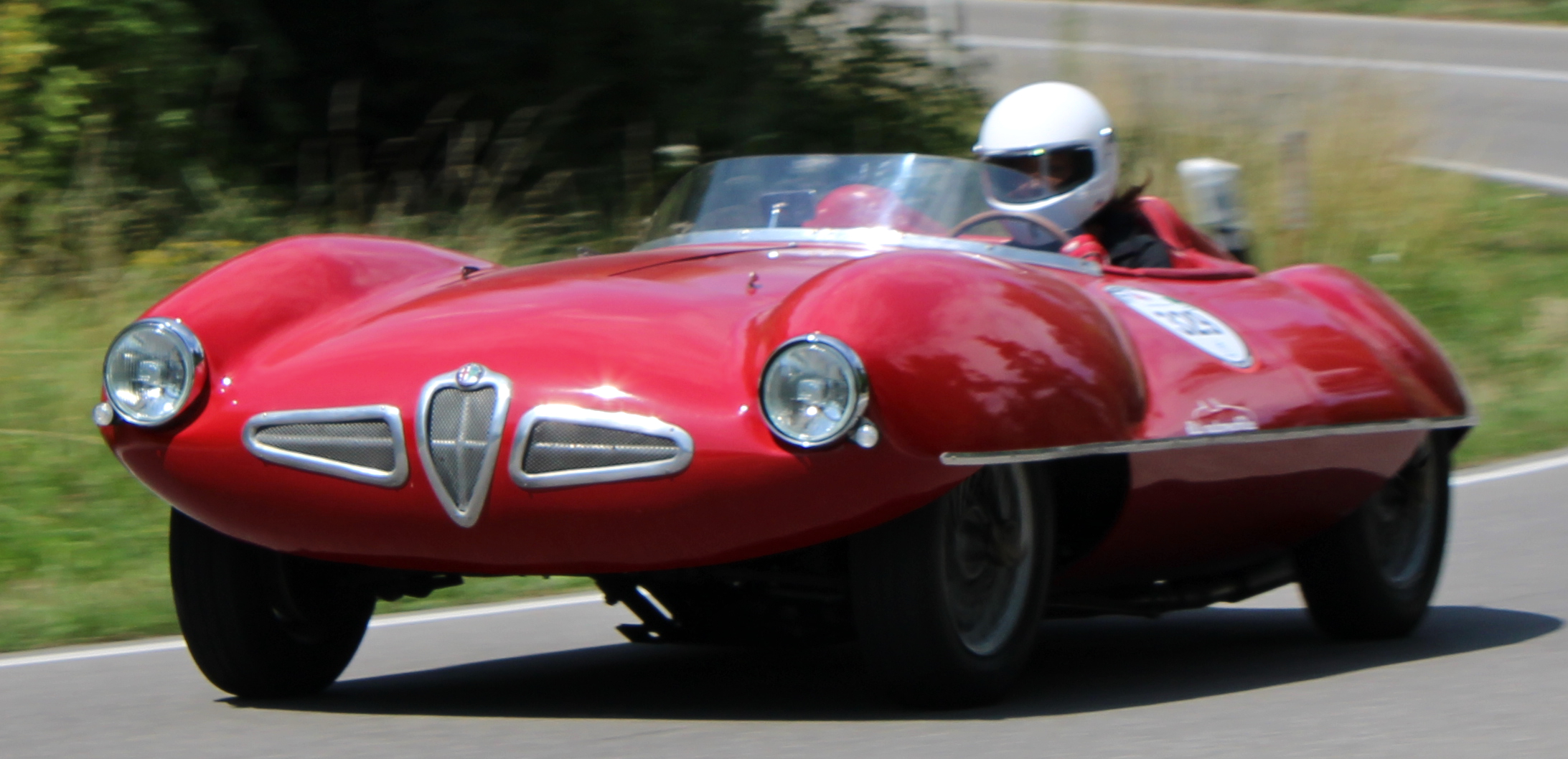 Alfa Romeo Disco Volante (1954) at Solitude Revival 2019